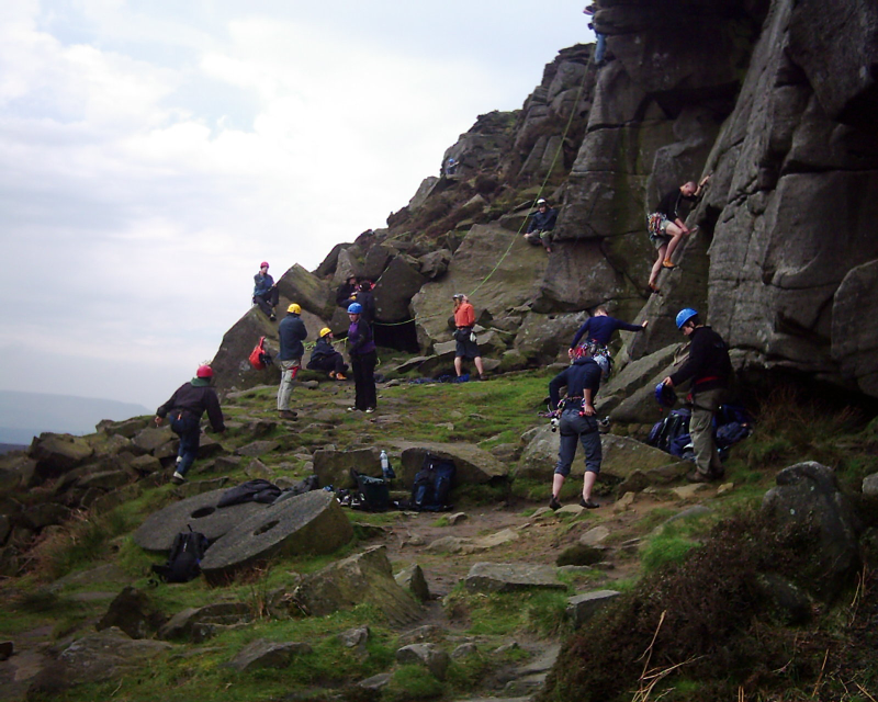 Photo of Explorer Scouts climbing at Stanage Edge